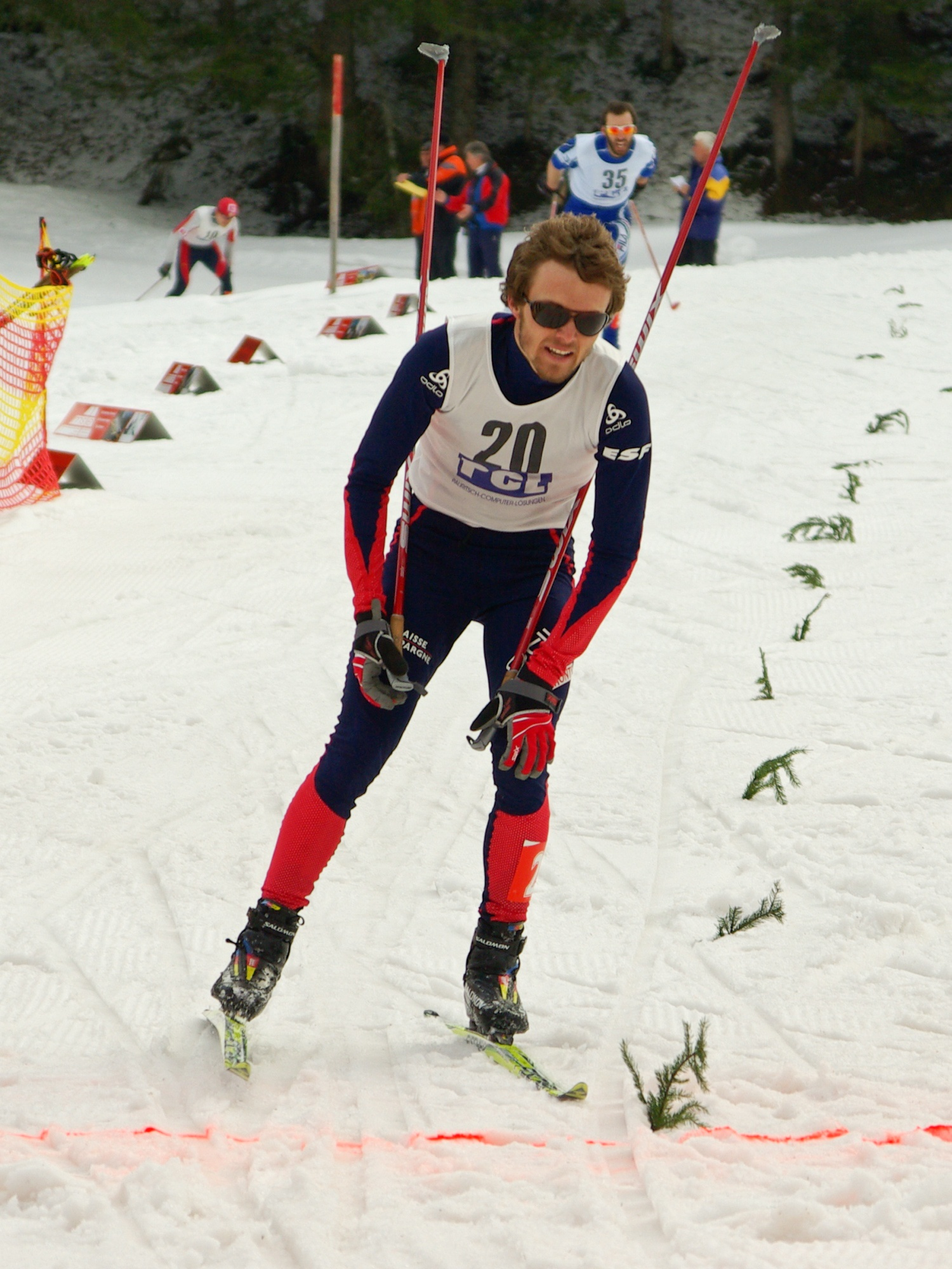 French nordic combined skier Jonathan Felisaz during the World Cup B sprint event in Eisenerz (Austria) on 9 March 2008.